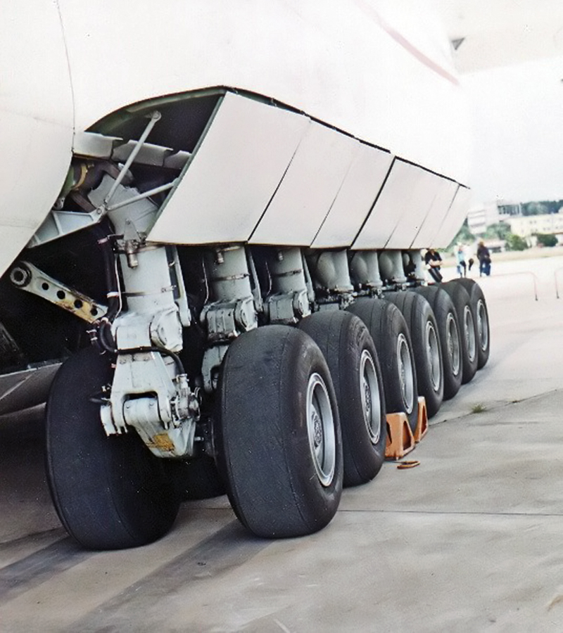 Antonov-225 'Mria' heavy lift transport - main landing gear.